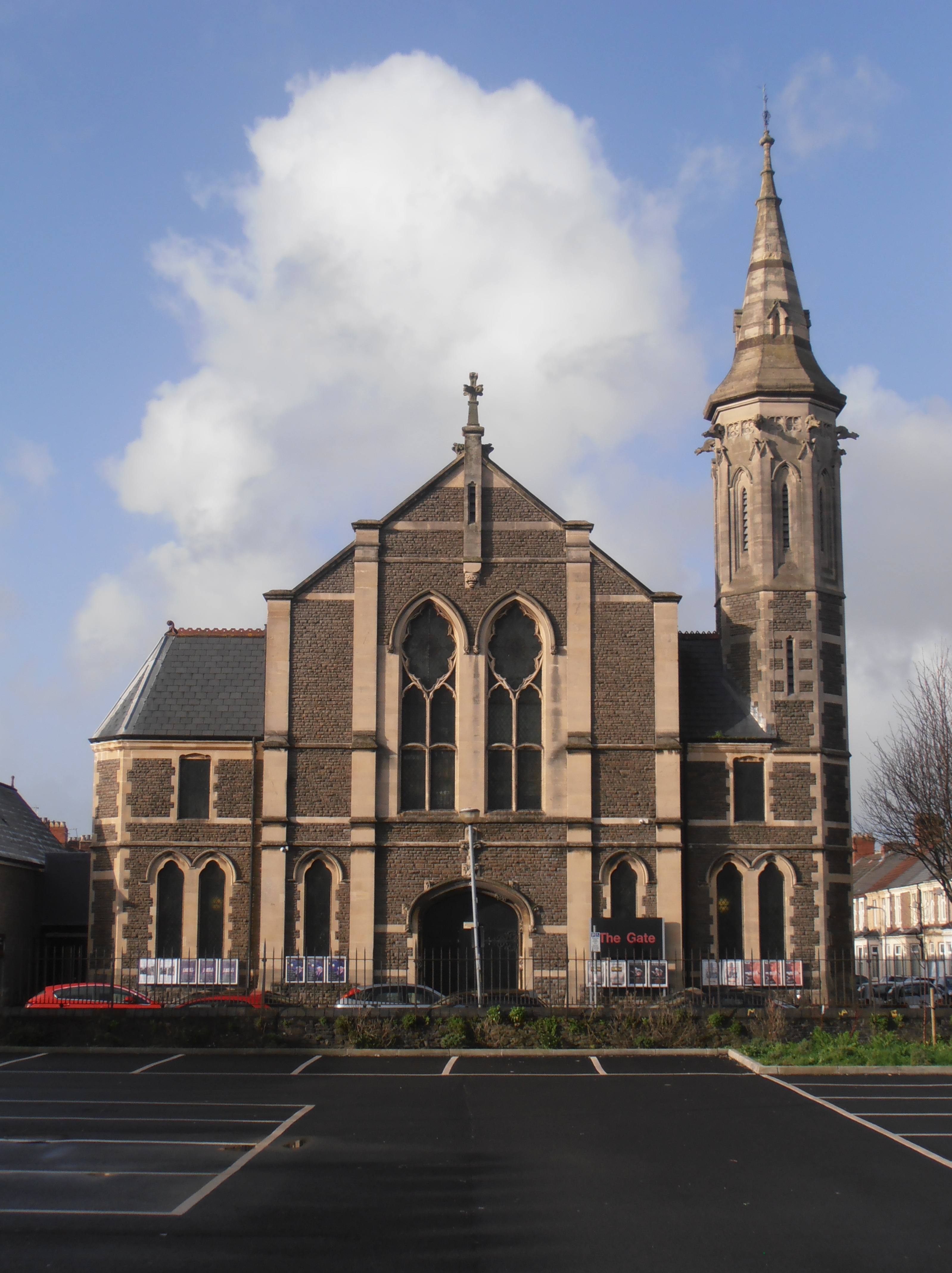 The Gate Arts Centre, formerly Plasnewydd English Presbyterian Church, Plasnewydd Square, Cardiff. Built in 1901 to a design by W. Beddoe Rees, it was the first building by this prolific chapel architect.